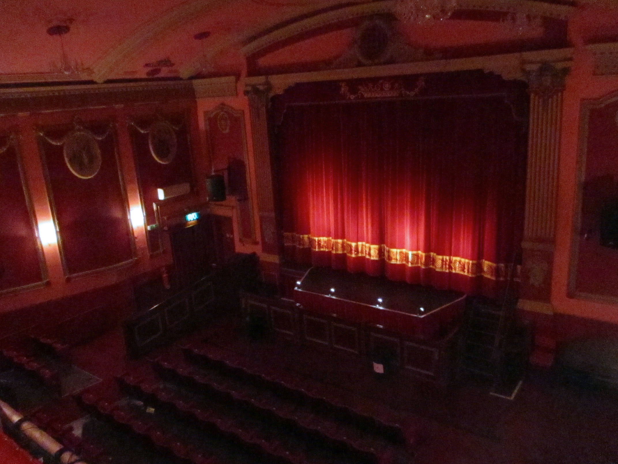 Savoy Theatre Monmouth View From Balcony